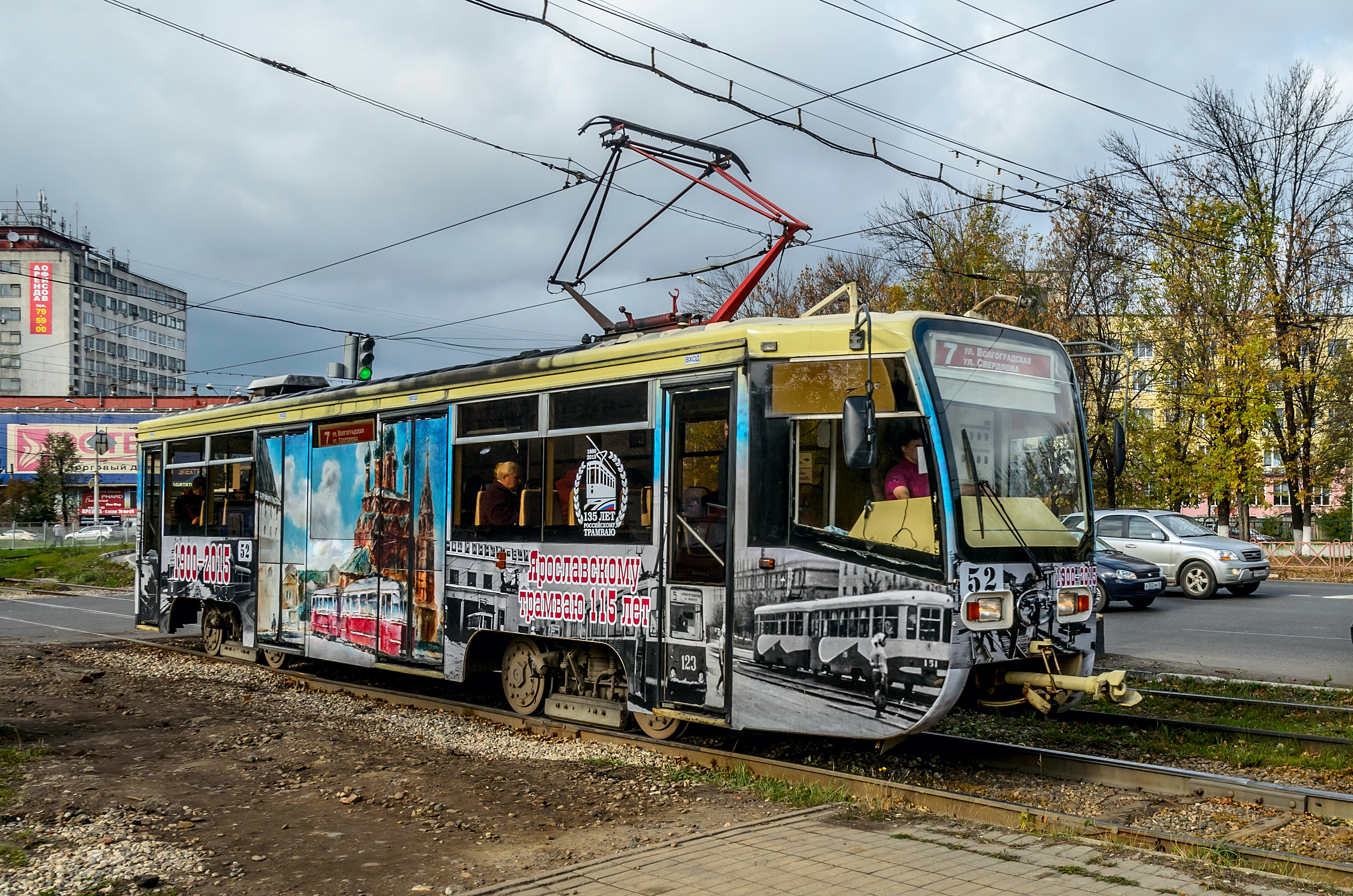 Tram KTM-19 at Oktyabrya Avenue in Yaroslavl